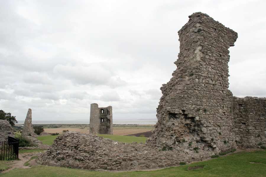 The remains of the high tower, curtain and east towers of Hadleigh Castle.